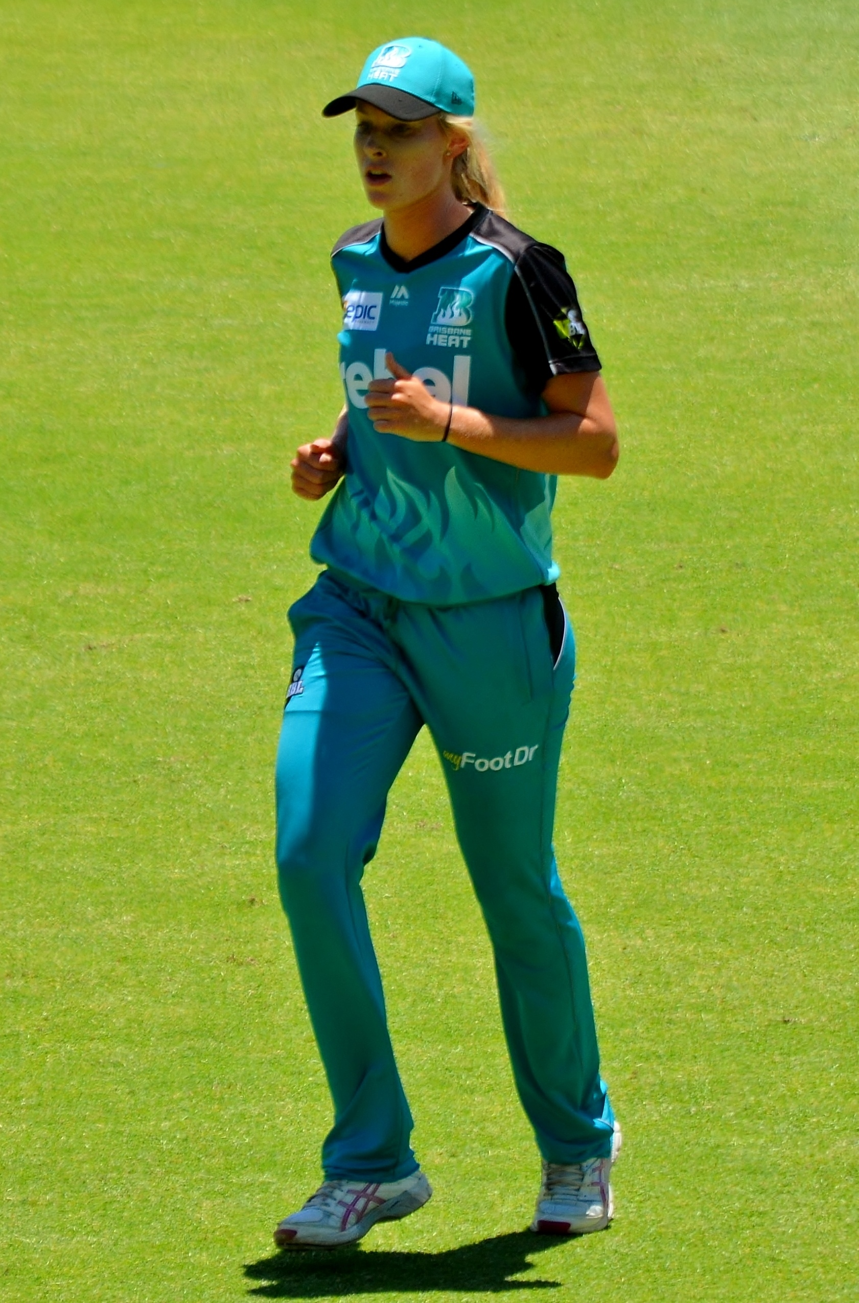 Holly Ferling fielding for Brisbane Heat (WBBL) against Perth Scorchers (WBBL) at the WACA Ground in Perth, Australia.